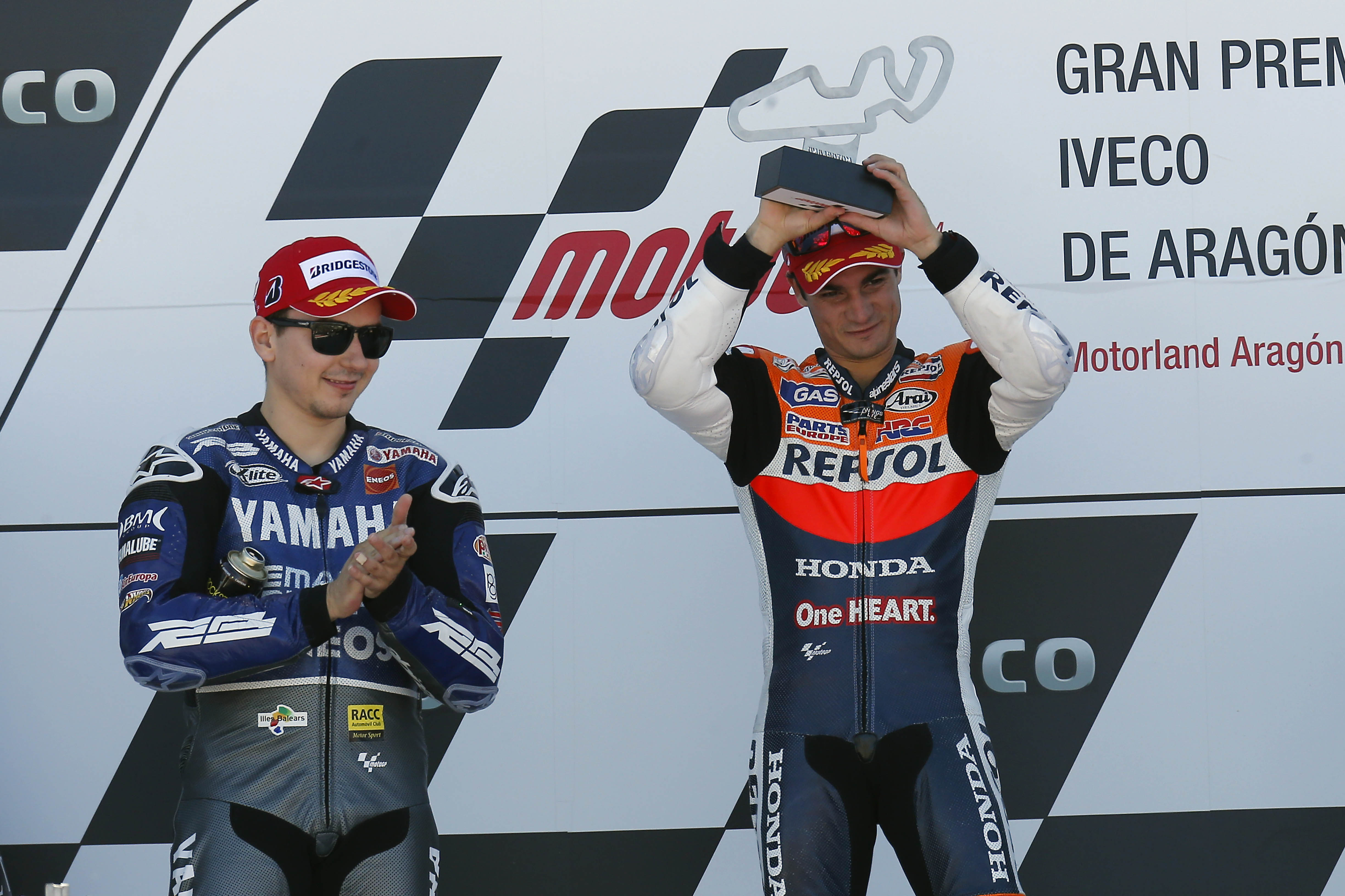 Jorge Lorenzo and Dani Pedrosa (lifting his trophy), celebrating on the podium after finishing in second and first position at the 2012 Aragón Grand Prix.